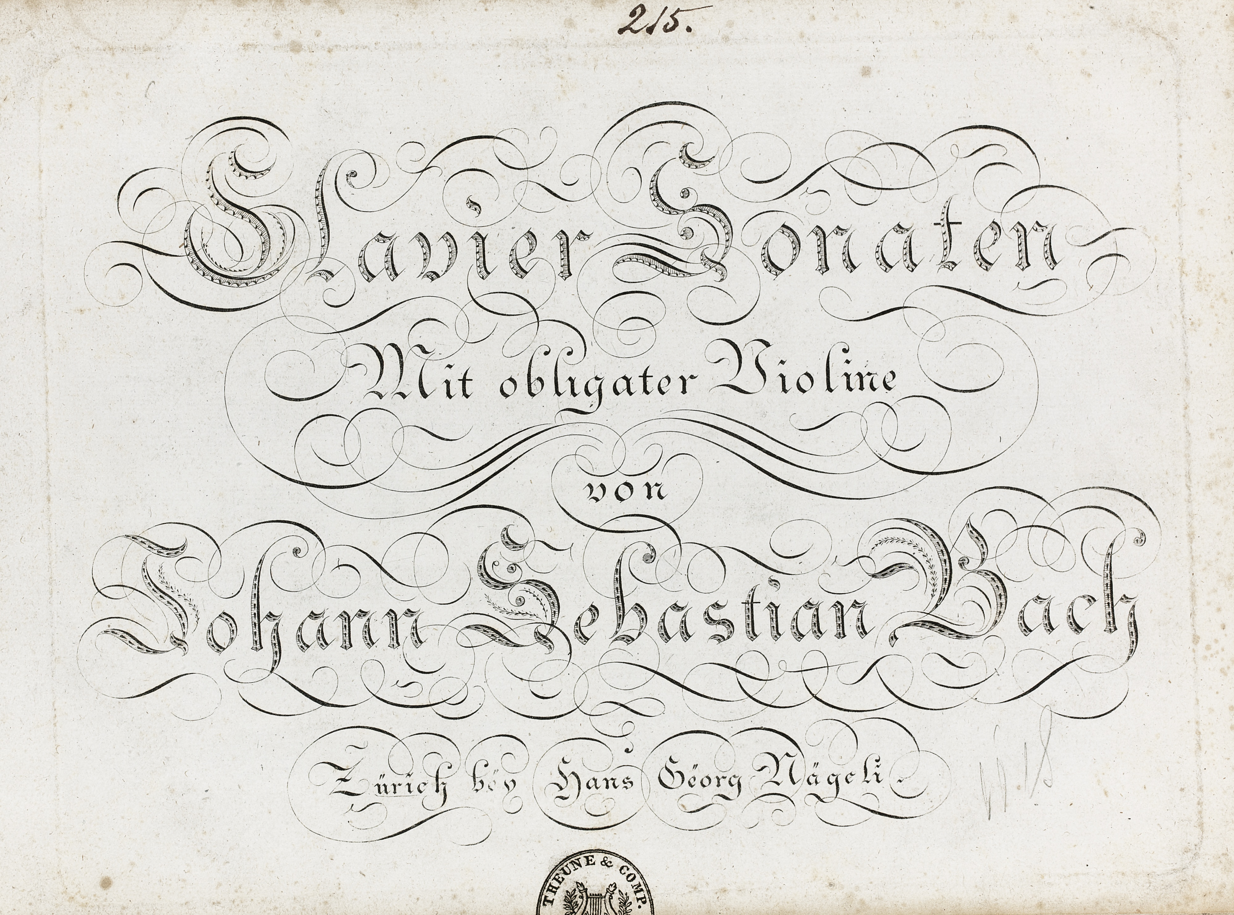 Title page of the printed edition published by Hans Georg Nägeli of J.S. Bach's six sonatas for violin and obbligato harpsichord, BWV 1014−1019, sold by Theune & Comp. of Amsterdam (high resolution image)